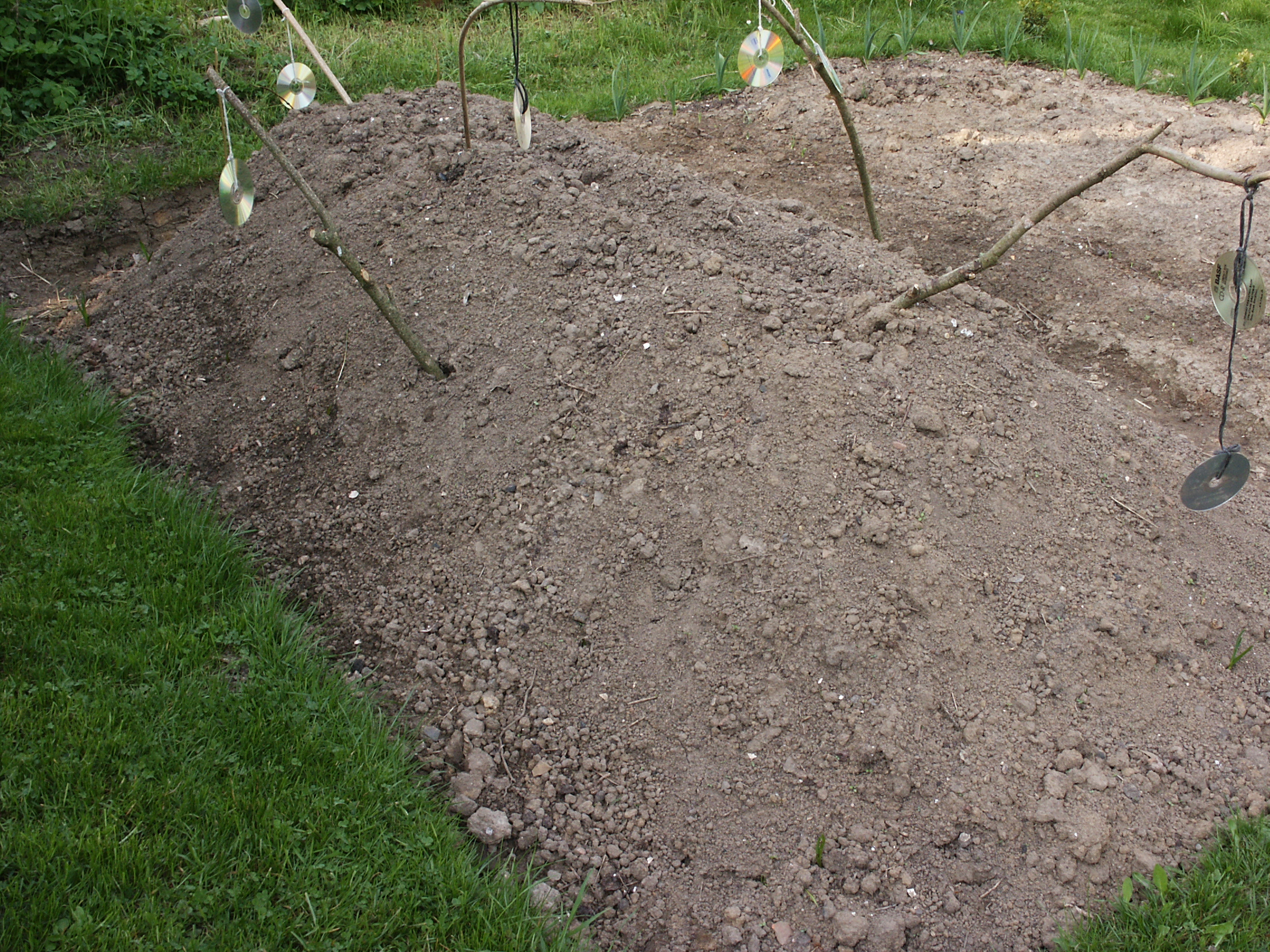 Hügelkultur without plants (CDs are used as protection against birds)